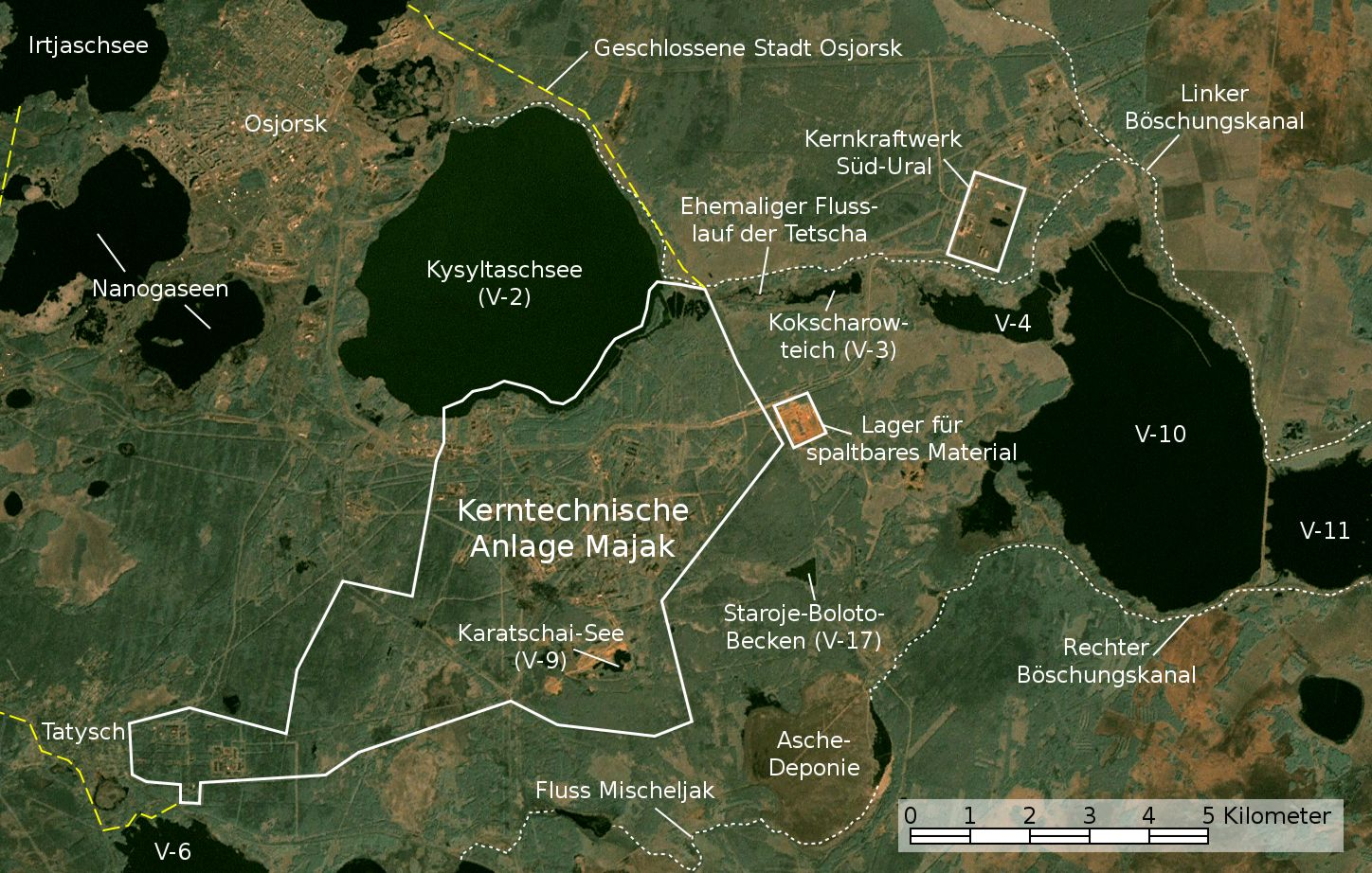 Satellite image/map of the Mayak nuclear facility, the closed town of Ozyorsk/Ozersk (Chelyabinsk-65), different lakes and reservoirs, and the South Urals nuclear power plant. Based on a screenshot from NASA World Wind (Landsat Global Mosaic visual layer), color corrected.